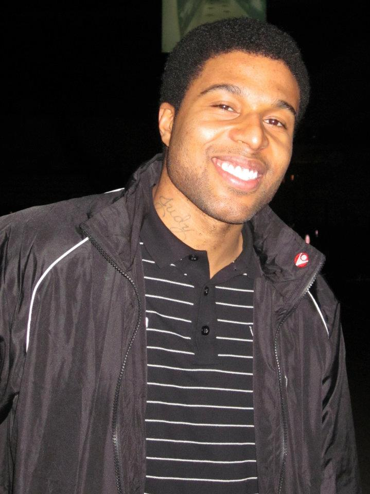 Chris Douglas-Roberts in 2011 at Virtus' Christmas Party